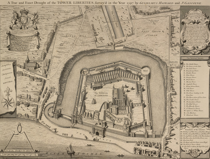 The title of the plan reads "A True and Exact Draught of the TOWER LIBERTIES, survey'd in the Year 1597 by GULIELMUS HAIWARD and J. GASCOYNE".